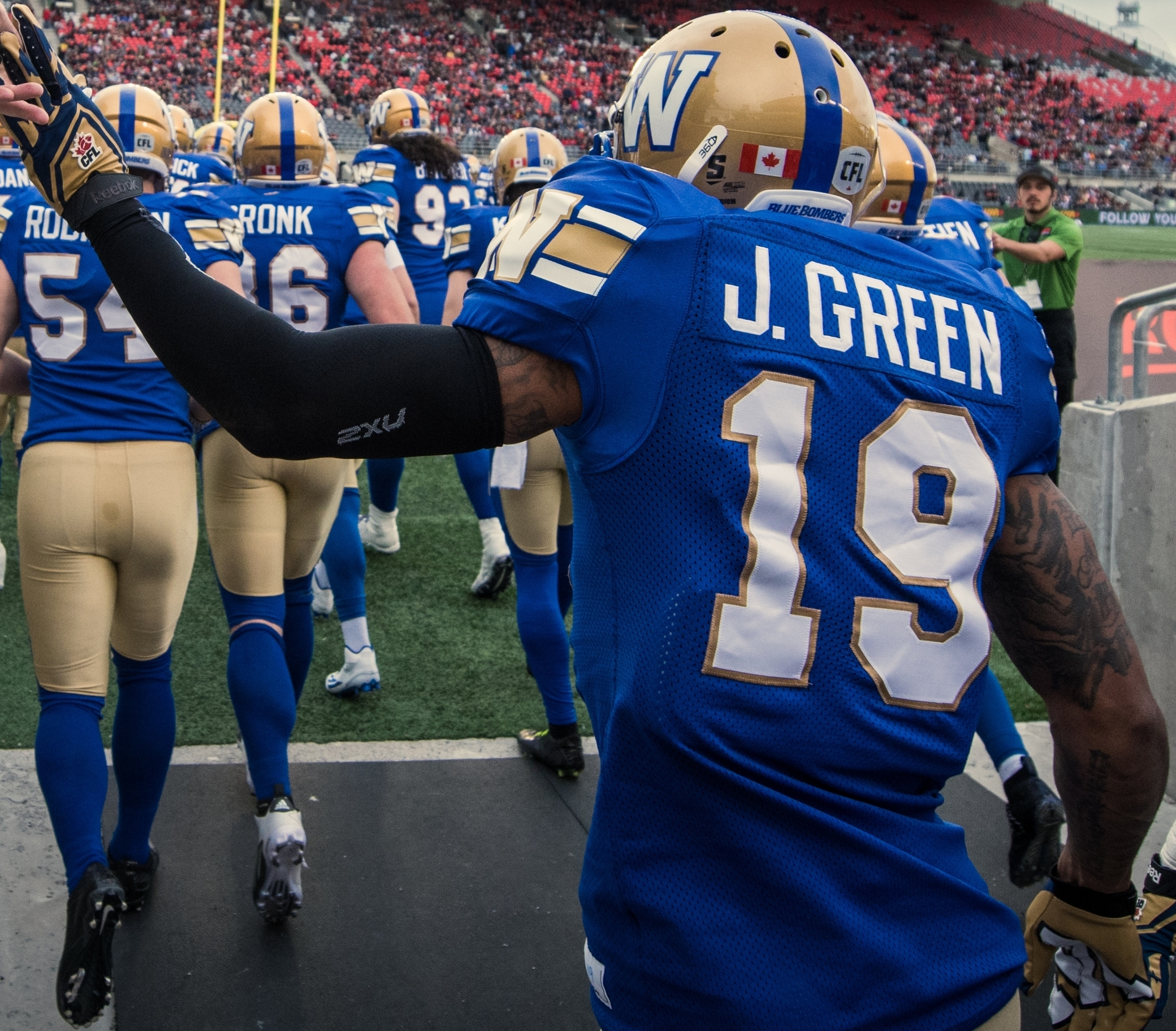 Jonte Green (19) of the Winnipeg Blue Bombers before the pre-season game against the Ottawa REDBLACKS at TD Place in Ottawa, ON on Monday June 13, 2016. (Photo: Johany Jutras)